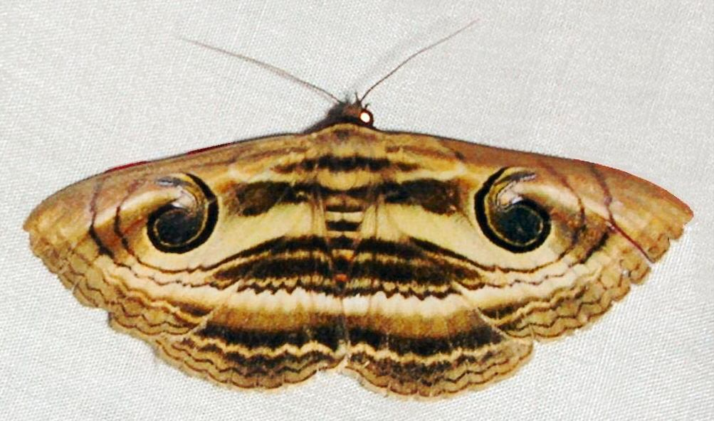 Spirama helicina photographed in Ratchaburi Province, Western Thailand